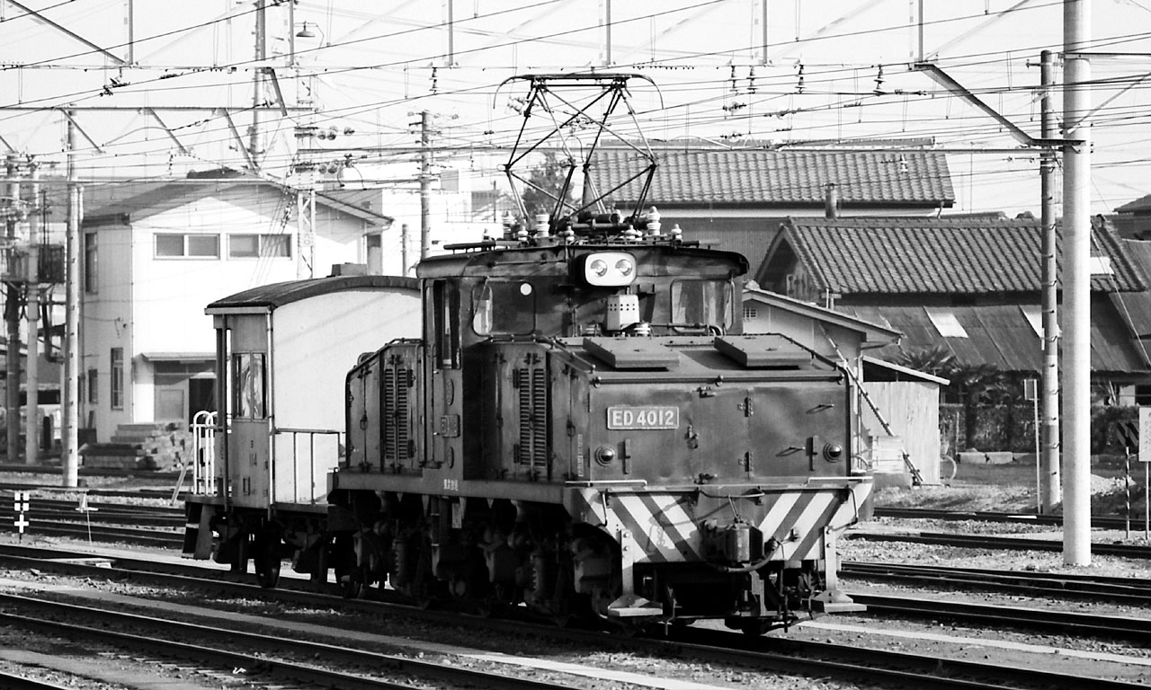 Tobu Class ED4010 electric locomotive ED4012 at Sugito Station (present-day Tōbu Dōbutsu Kōen Station)